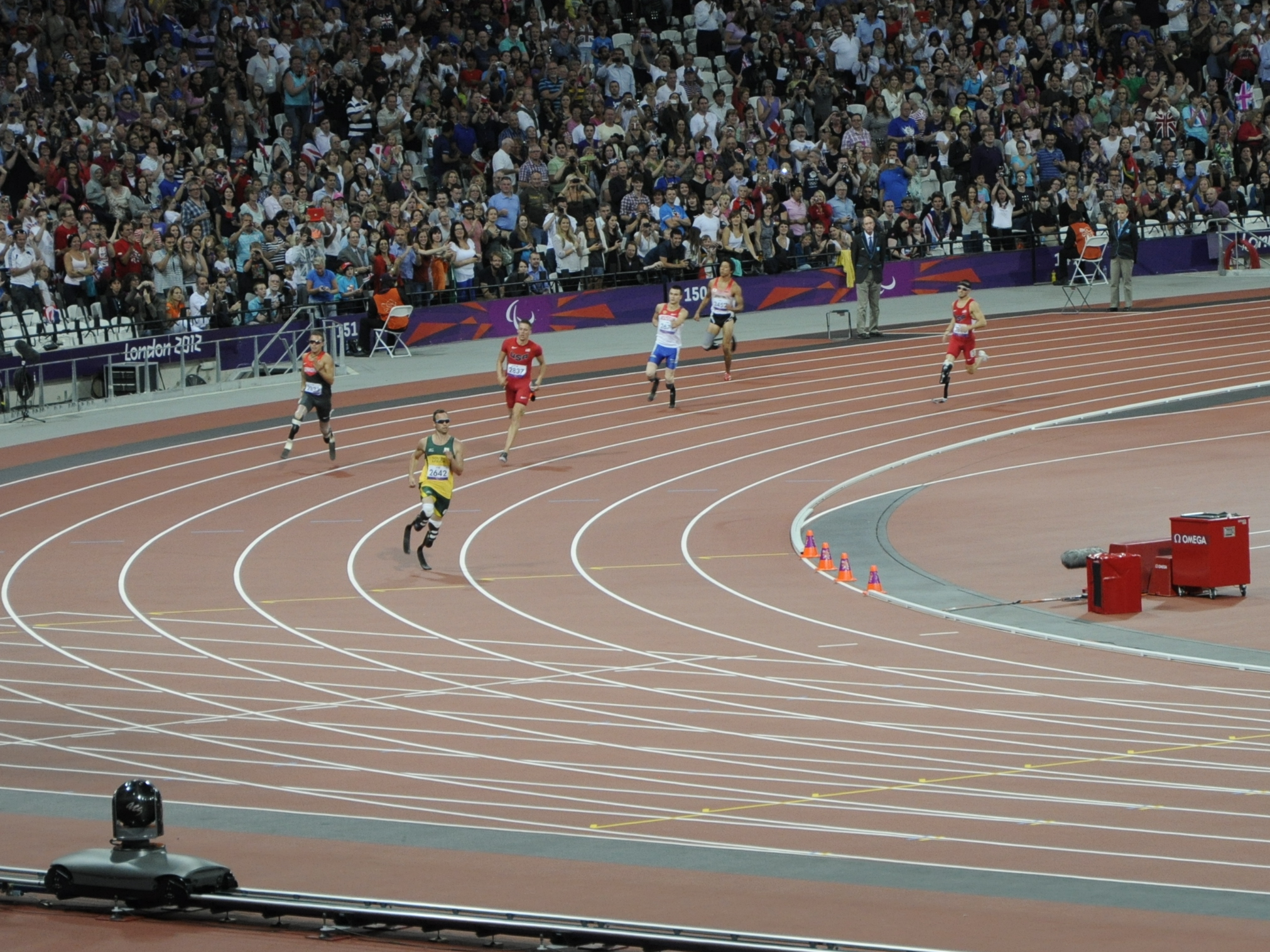 2012 Paralympics - Oscar Pistorius in the T44 400 metres heats.